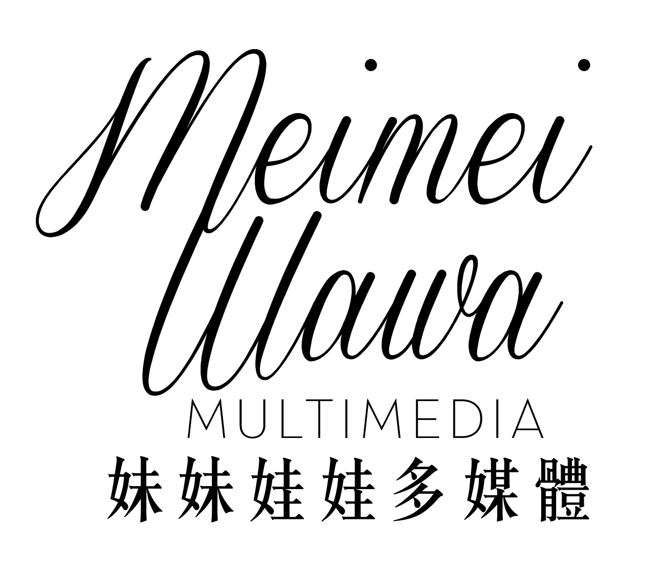 Meimeiwawa Multimedia's official logo since 2013. The logo was created by James Owen Huang. 中文（台灣）: 妹妹娃娃多媒體2013年啟用的正式商標。由James Owen Huang設計的。